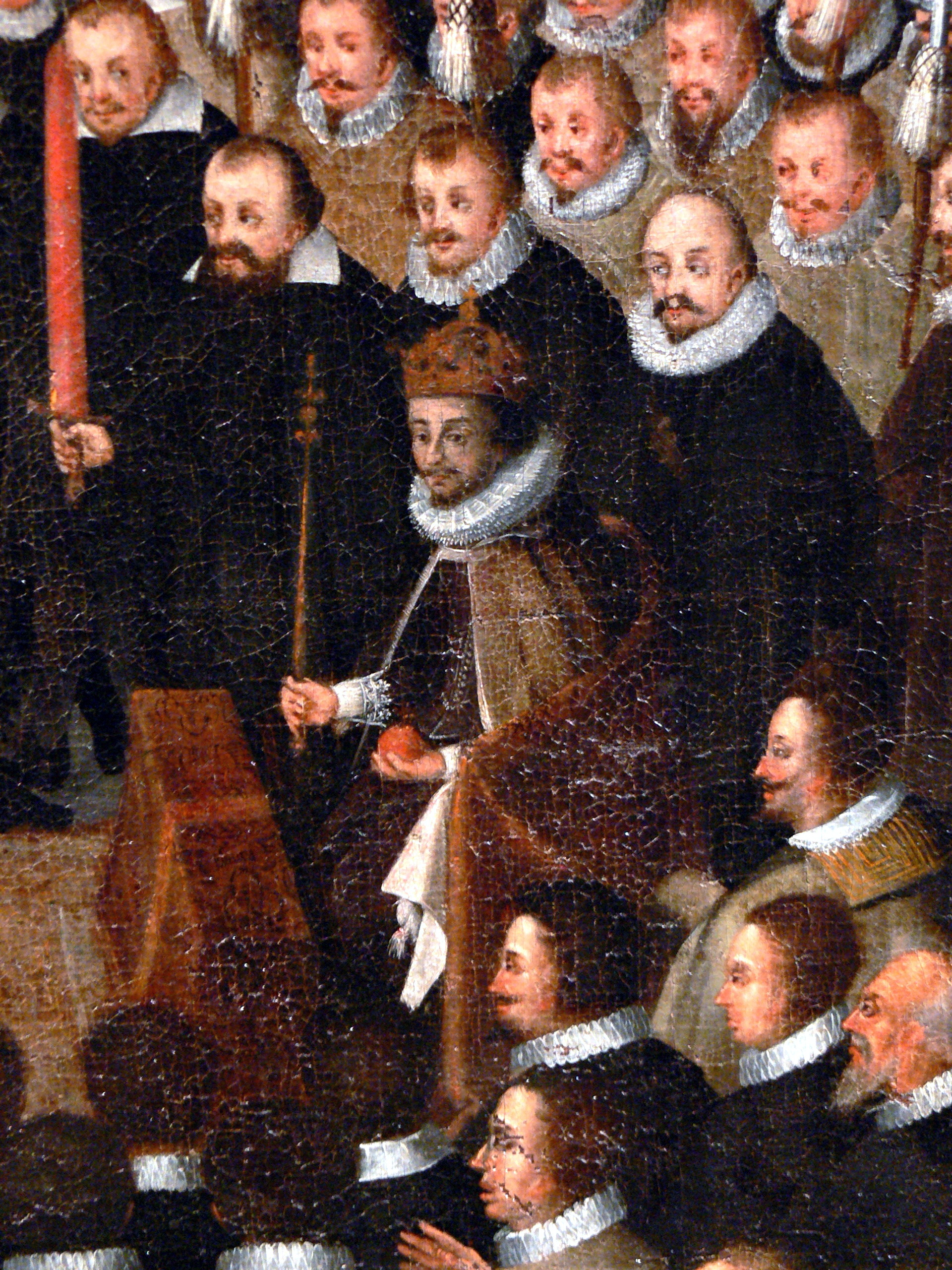 Frederick V, Elector Palatinate as king of Bohemia: Detail of a painting, shown in the exhibition "Bavaria-Bohemia" 2007 in Zwiesel ( Bavaria ).